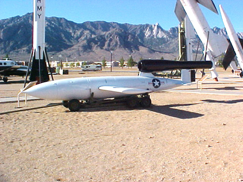 The JB-2 Loon, an American version of Germany's V1 bomb. From the source: Essentially a cruise missile, the V-1 carried a one-ton warhead and used a pulsed jet engine to propel it at 360 miles per hour, at low altitudes, toward such targets as London and Antwerp. The U.S. version was not flown in WWII but was later used to test engine technology and as a drone target.